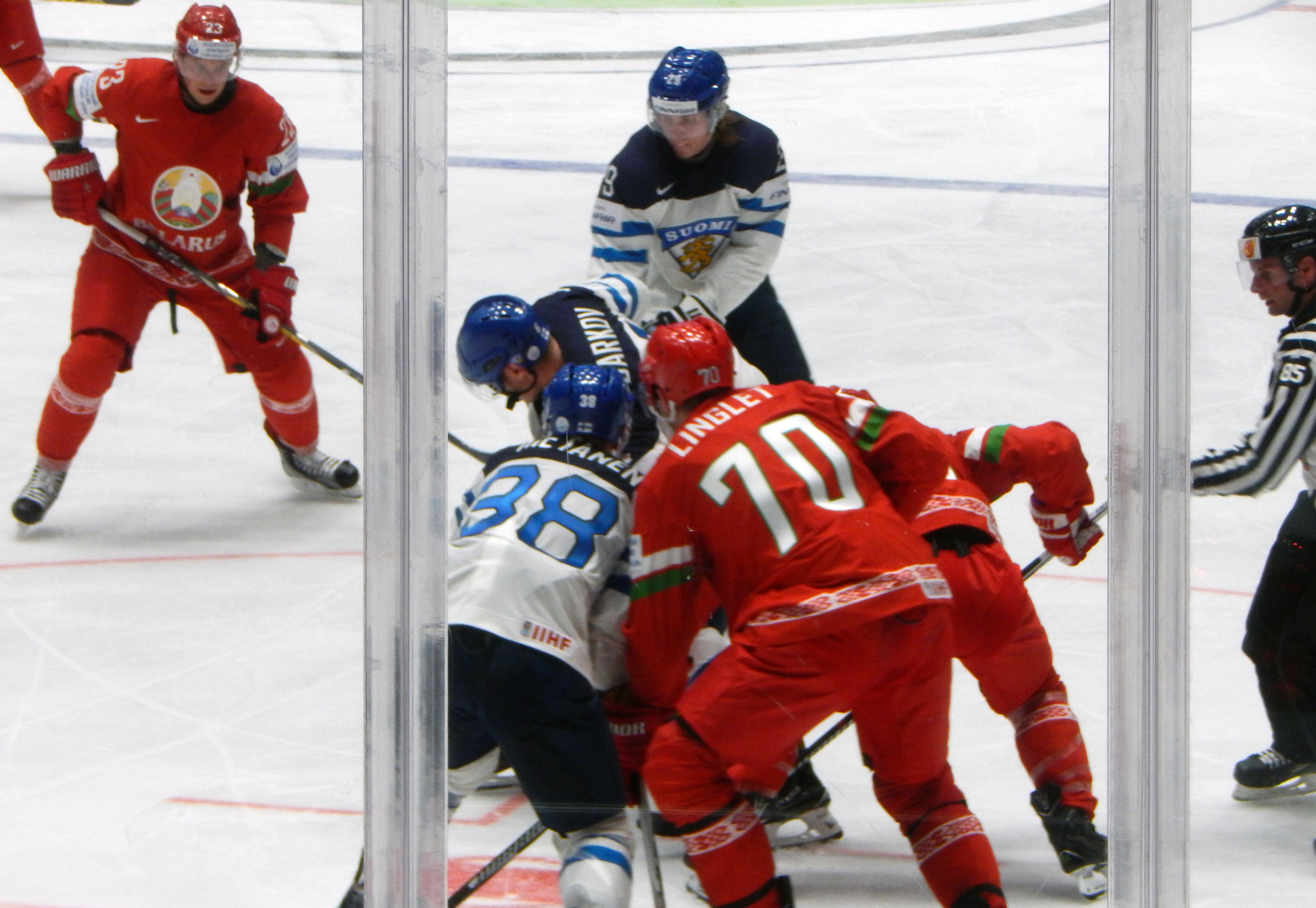 A face-off in the game between Team Finland and Team Belarus on May 6, 2016 (Saint Petersburg, Russia)